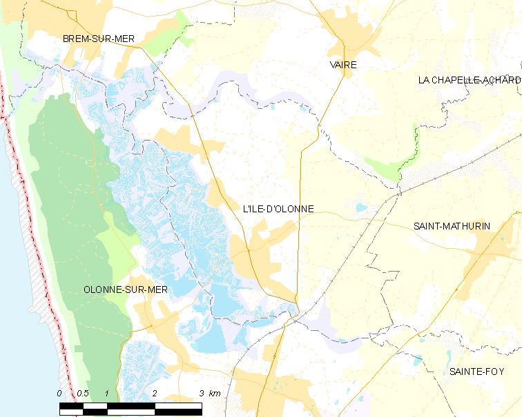 Map of French municipality L'Île-d'Olonne